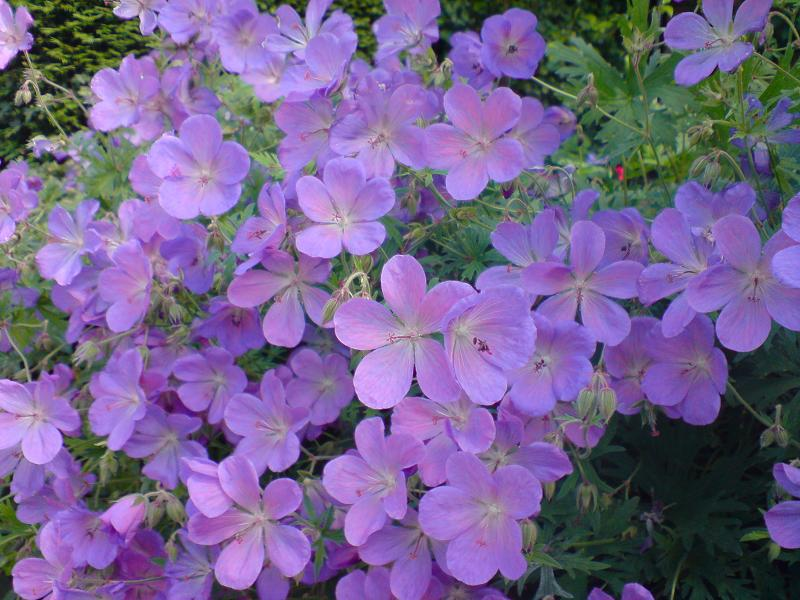 Unidentified Geranium sp. flowers in Kew Gardens, England.